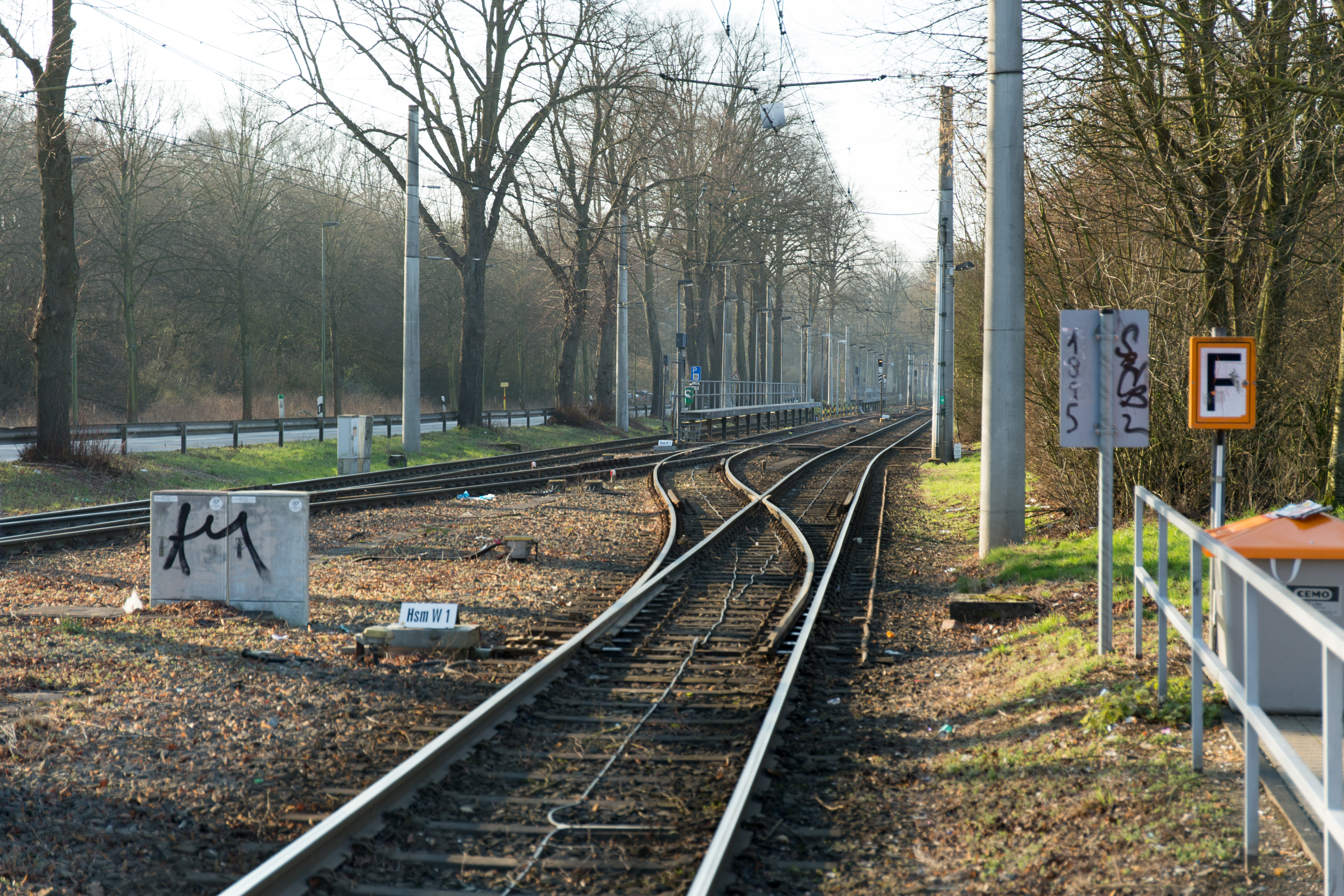 Blickrichtung Krefeld - Abstellplatz